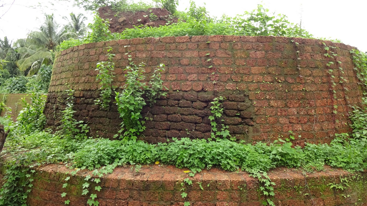 Bandadukka fort in Kasaragod District of Kerala